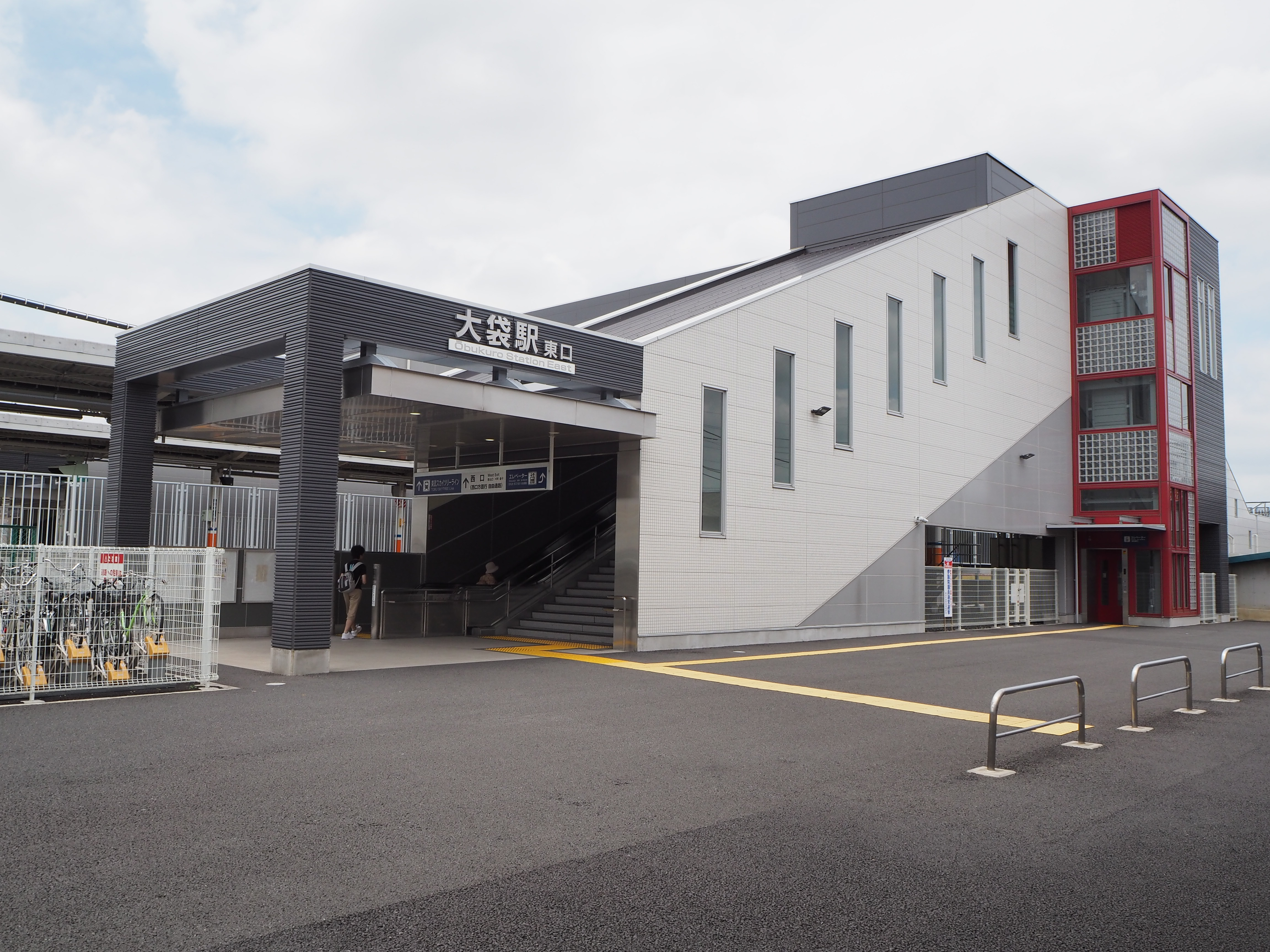 East entrance of Ōbukuro Station